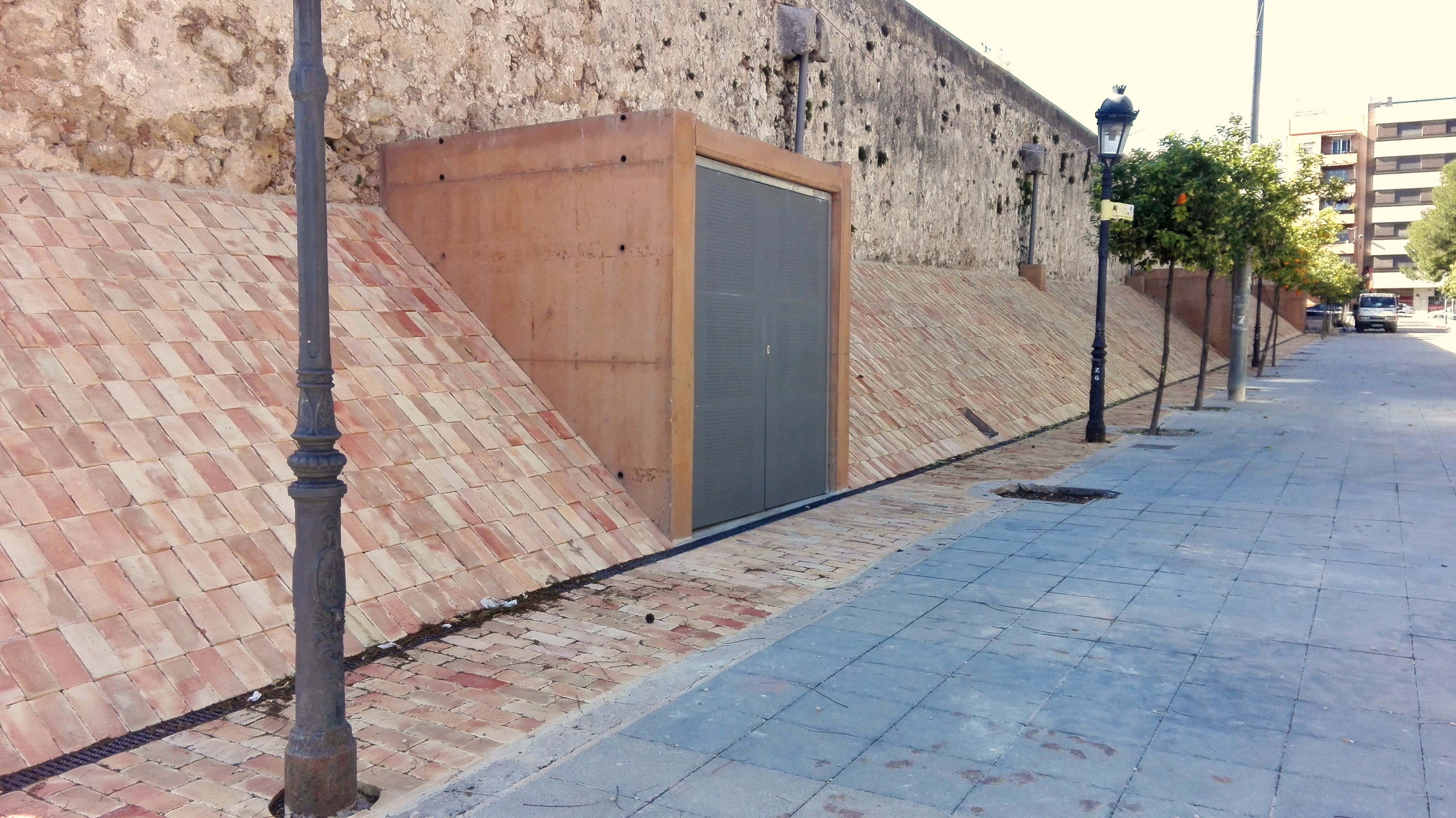 New reinforcement of the wall of los Silos, after the repair process of the monument, after the partial fall of the wall in the torrential rains of September 2018.